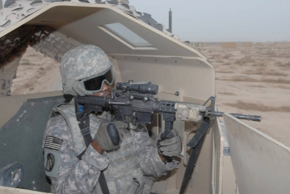 The Overhead Cover is an integrated armor/ballistic glass system mounted onto the Objective Gunner Protection Kit of tactical and armored vehicles. It provides enhanced 360 degree ballistic protection while retaining visibility for situational awareness by gunners.